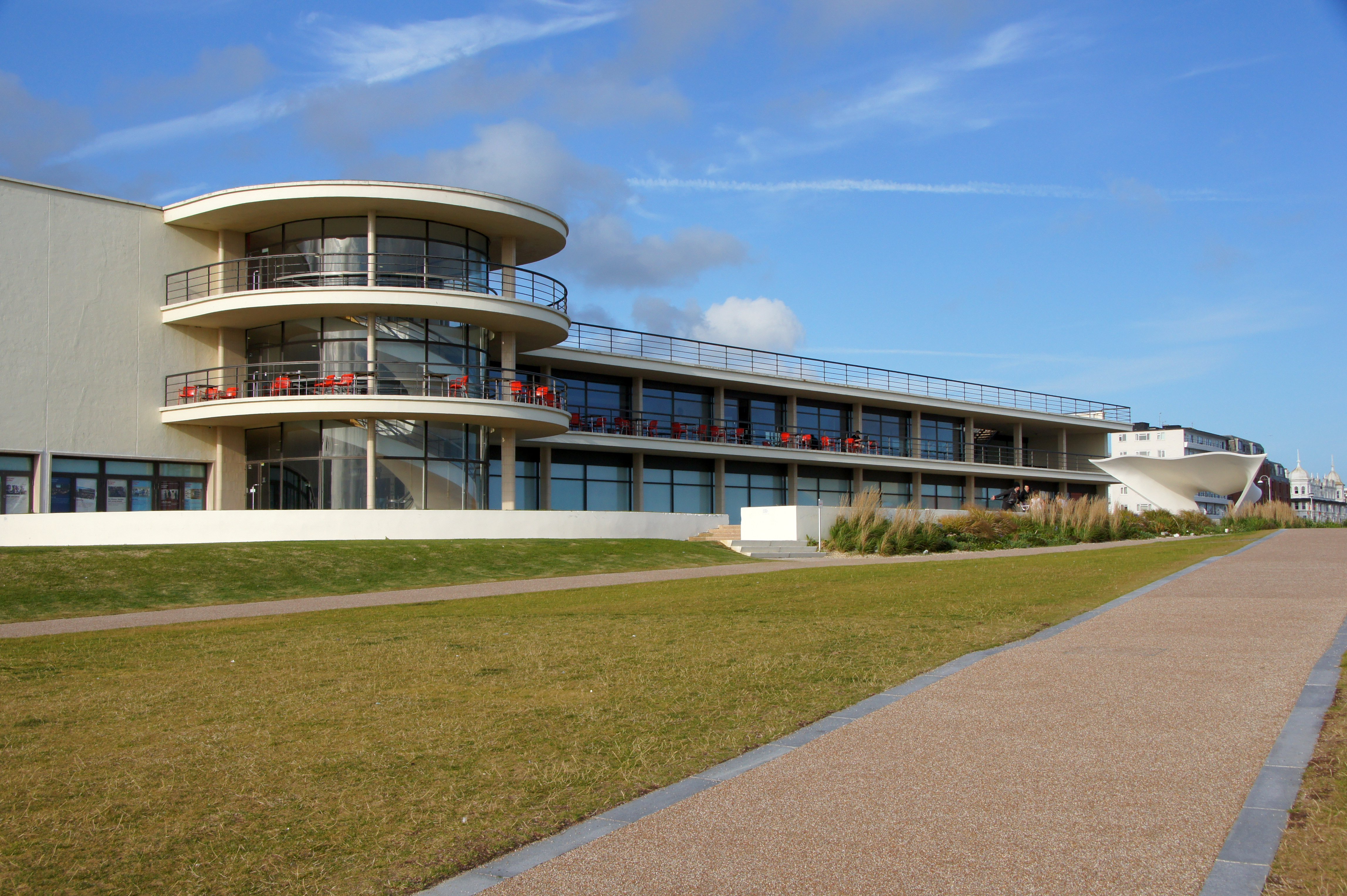 De La Warr pavilion, Bexhill. Wonderful!